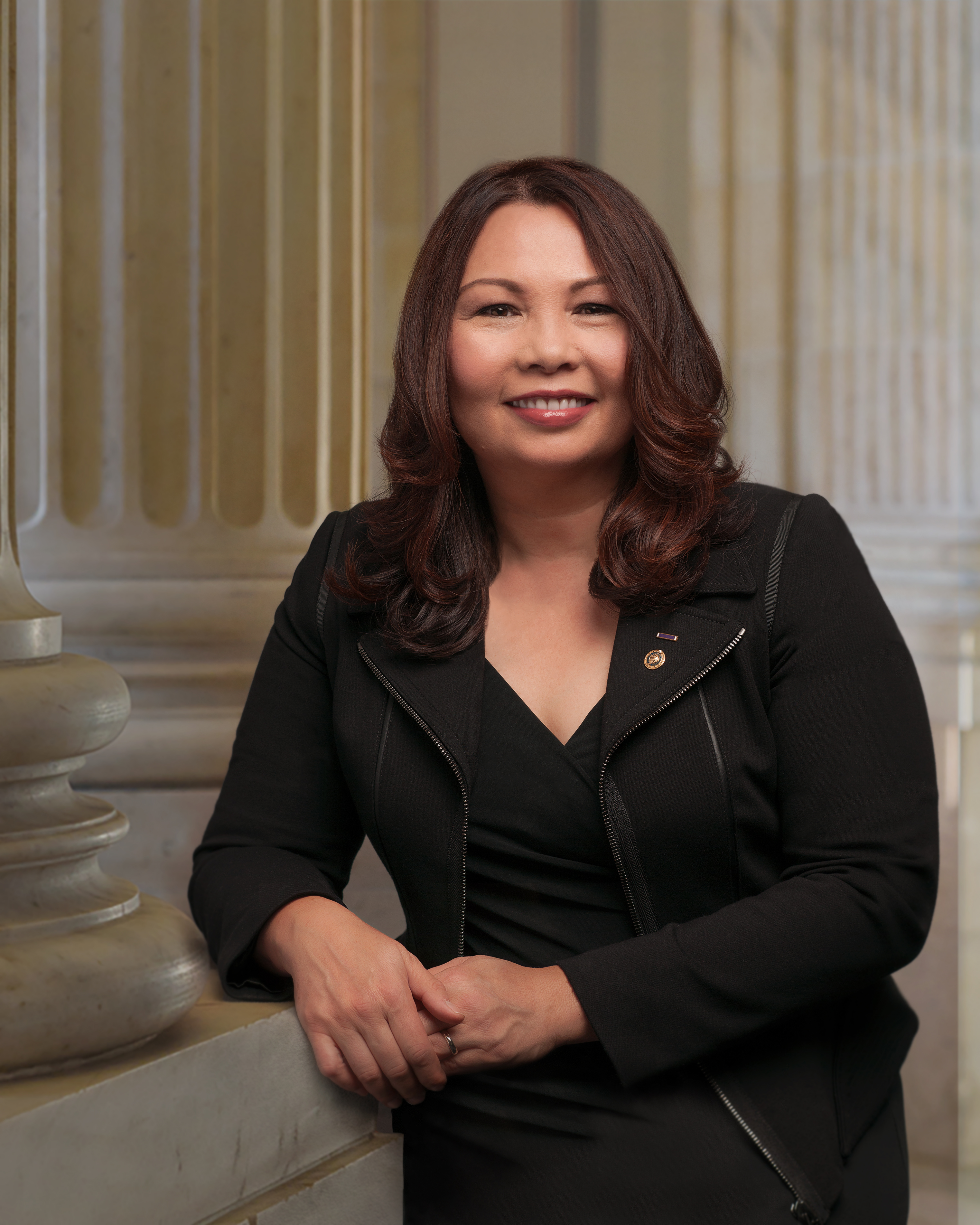 Official portrait of U.S. Senator Tammy Duckworth (D-Illinois).